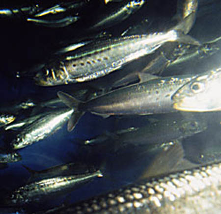 Pacific sardine form large schools. They are caught with roundhaul gear, which encircles a specific school of fish with a net.